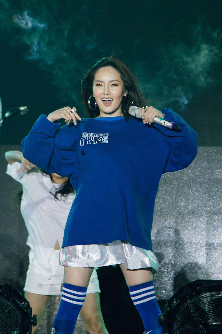 Ankhmaa on stage